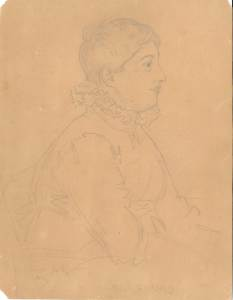 15 Feb 1824 Anna Gurney by John Linnell. Anna Gurney (1795–1857) was a British scholar specialising in Old English[1] and a member of the Gurney family